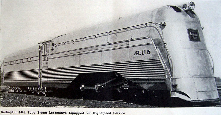 Photo of the Burlington streamlined steam driven locomotive, Aeolus, which was meant to serve as a backup for the diesel-driven locomotives on the company's Denver and Twin Cities Zephyrs. "This is a 1937 Railway Age article entitled "Burlington Builds Streamline Steam Locomotive", regarding the Burlington's streamlined 4-6-4 type locomotive which was named "Aeolus"." The locomotive survives today on display in Copeland Park, LaCrosse, Wisconsin.